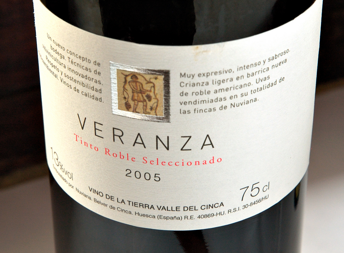 Close-up of wine bottle label showing Vino de la Tierra labelling Shot with Nikon D70s